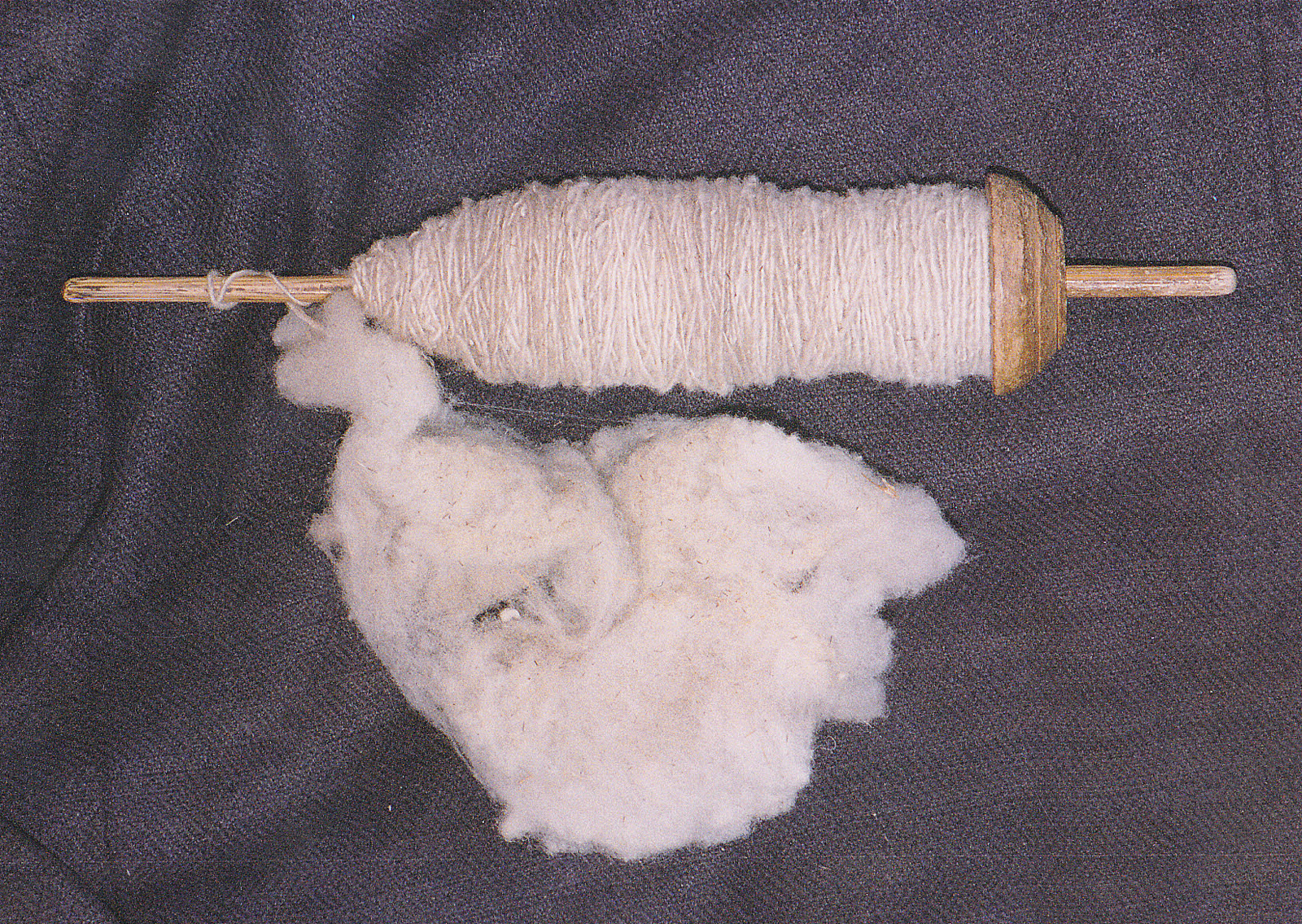 Drop spinle with wool of alpaca in Peru